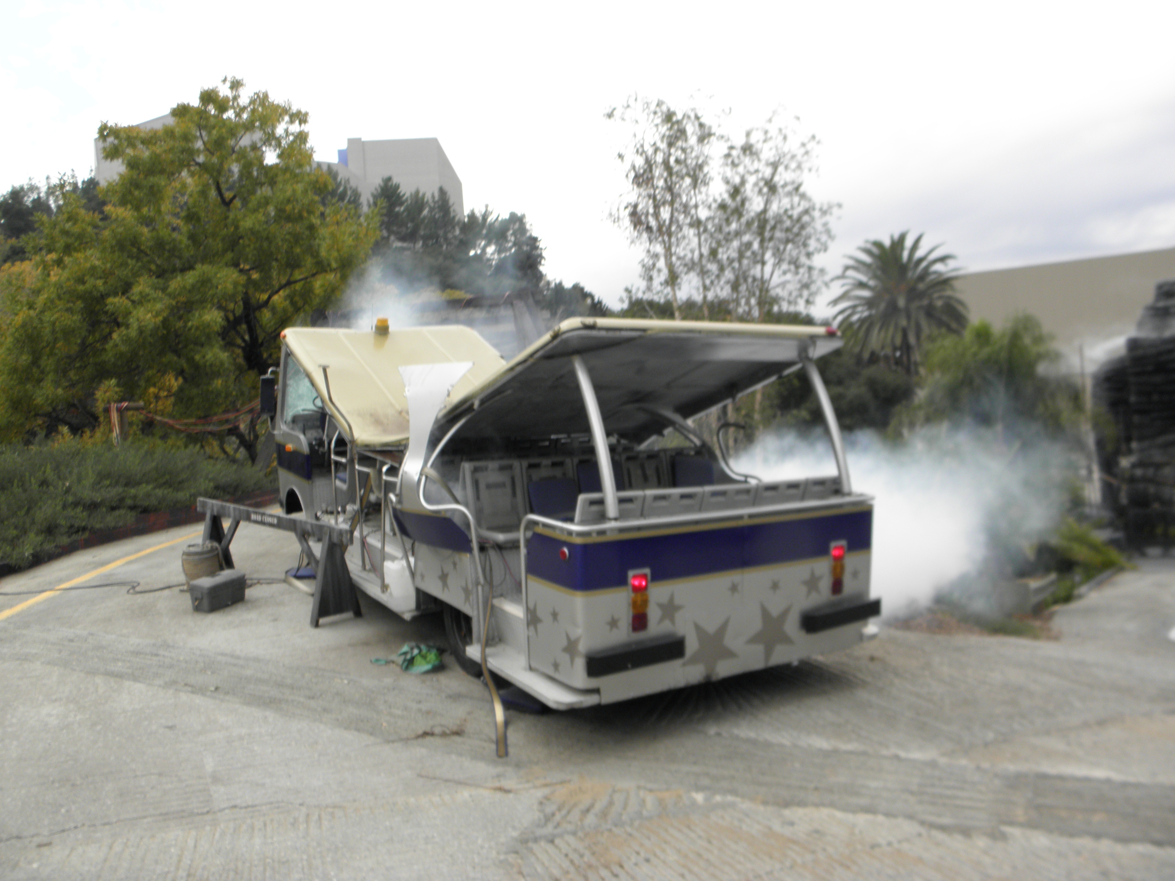 A crushed tram outside the entrance to the King Kong 360 3-D tunnel.